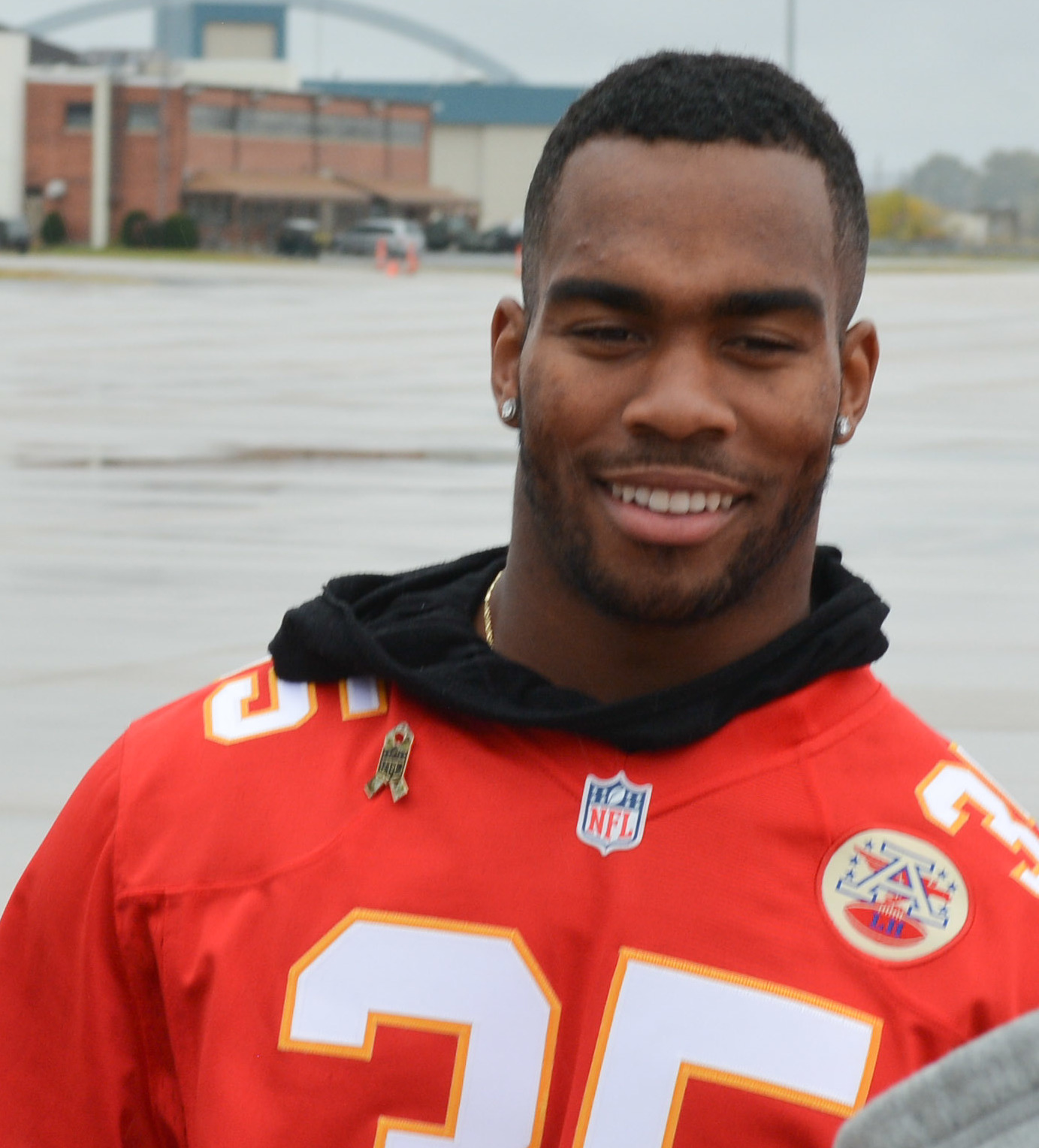 Members of the Kansas City Chiefs tour Rosecrans Air National Guard Base Oct. 27, 2015. The tour is part of the Chiefs Community Caring Team who visit local military bases to thank servicemen and women. KC Chiefs Charcandrick West, Allen Bailey, and Cairo Santos were part of the tour.